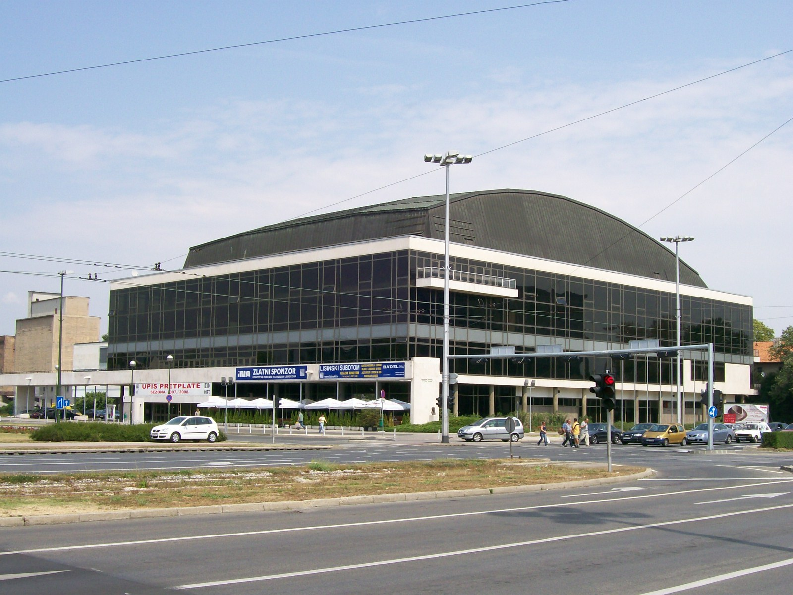 Vatroslav Lisinski Concert Hall, Zagreb, Croatia